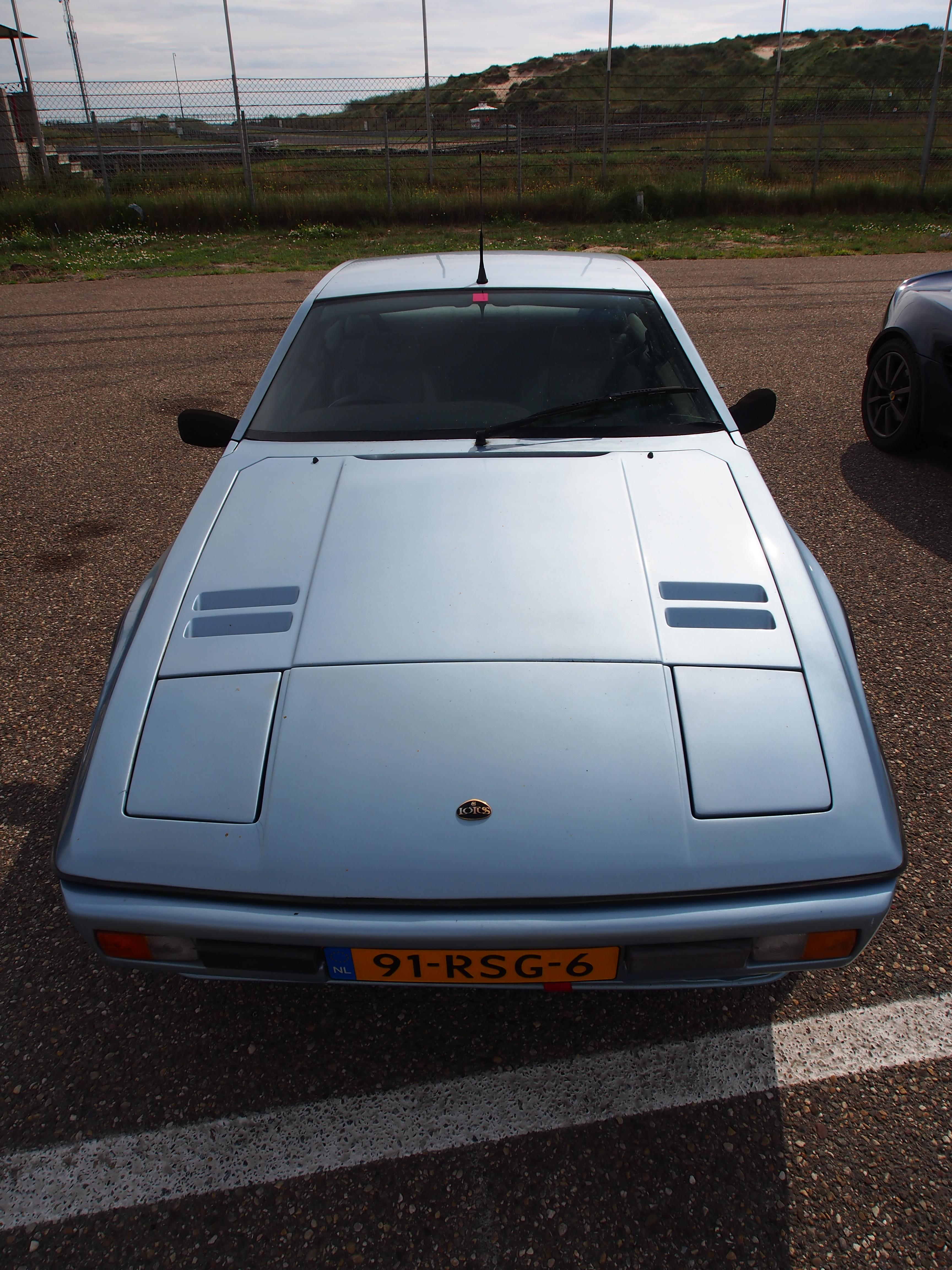 Photographed at the Nationaal Oldtimer Festival Zandvoort 2014, The Netherlands.